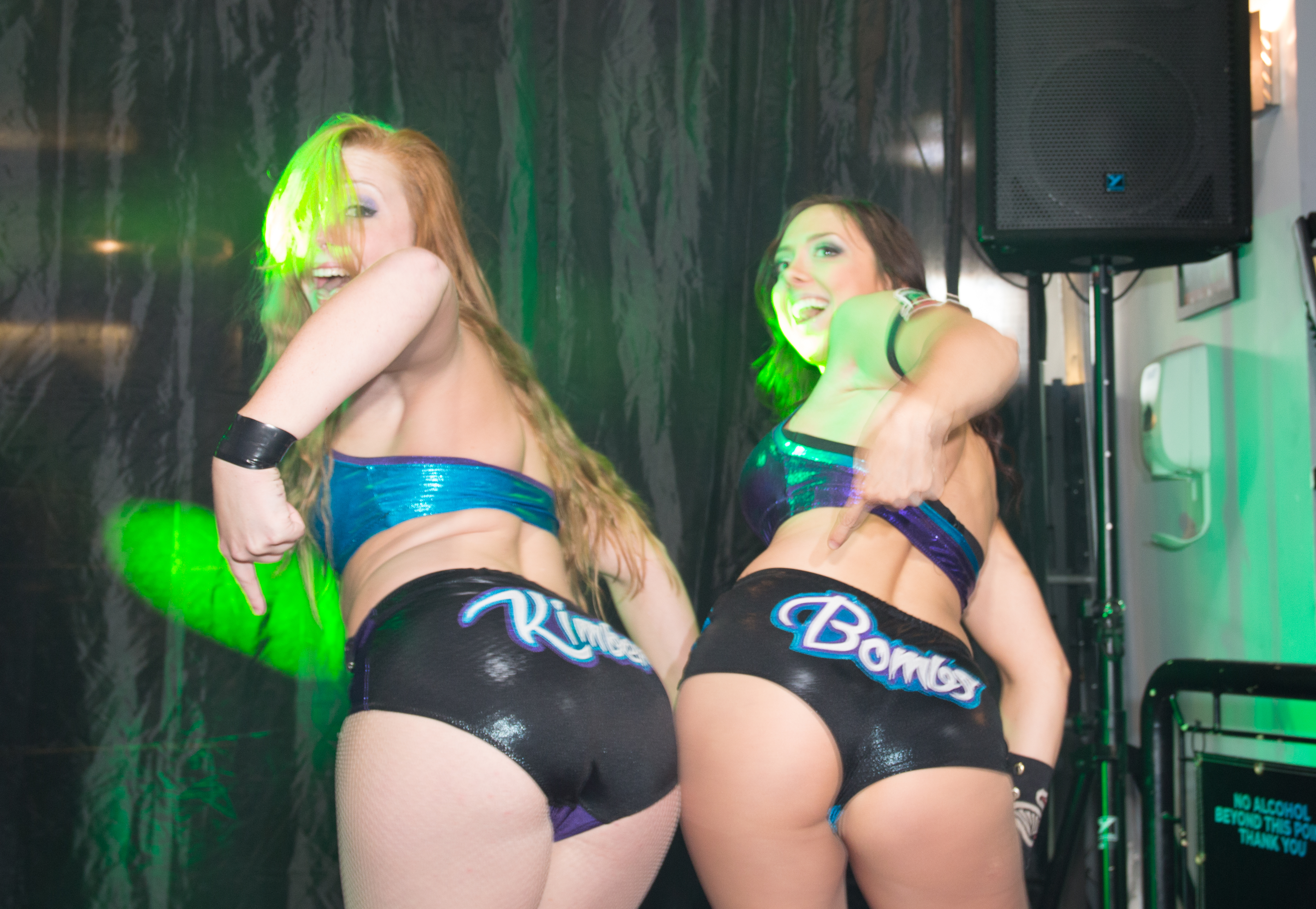 Kimber Lee (left) & Cherry Bomb entrance posing during their ring entrance.